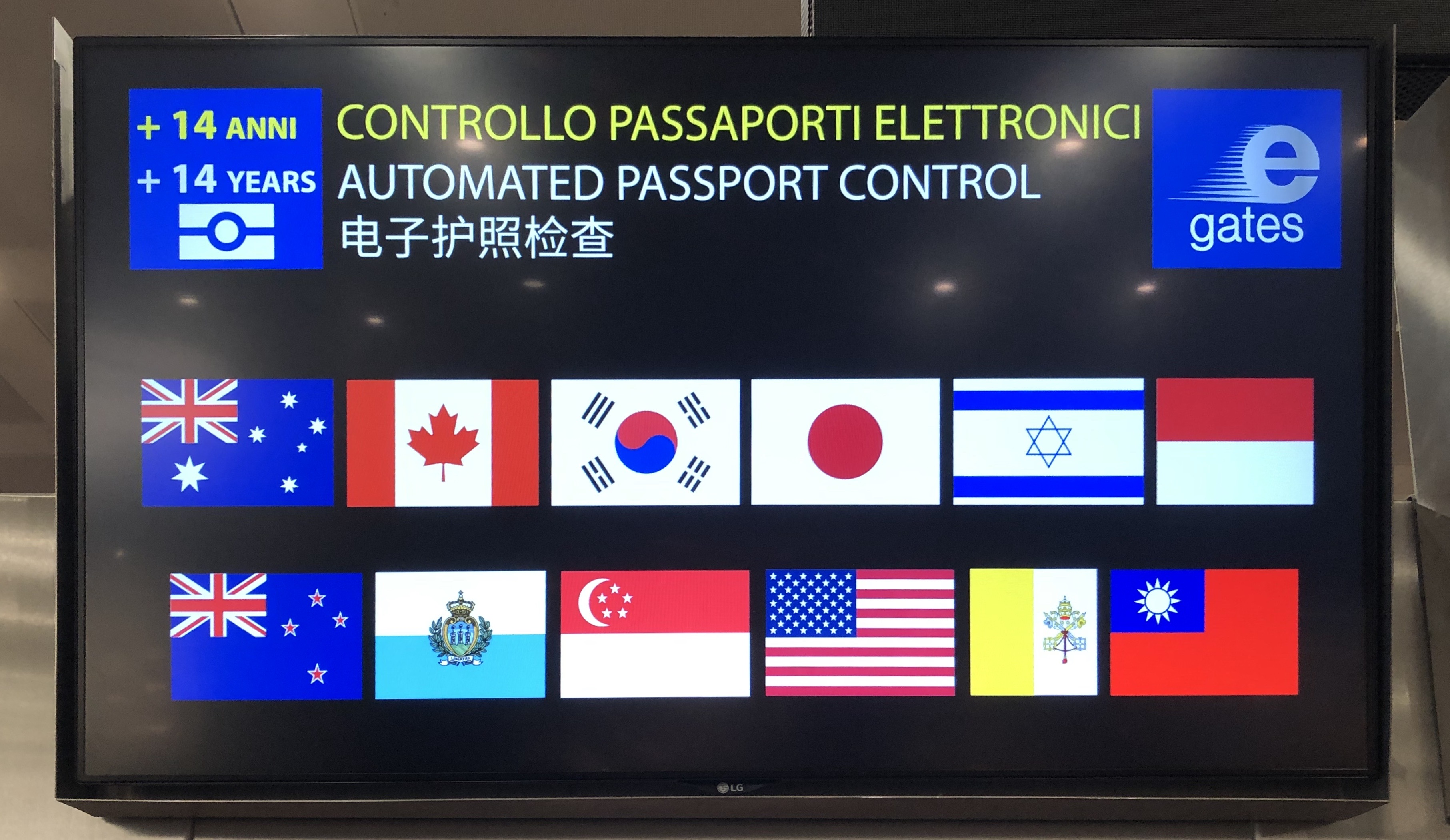 eGate eligibility screen in Venice Airport (EU citizens using eGates have a different line)